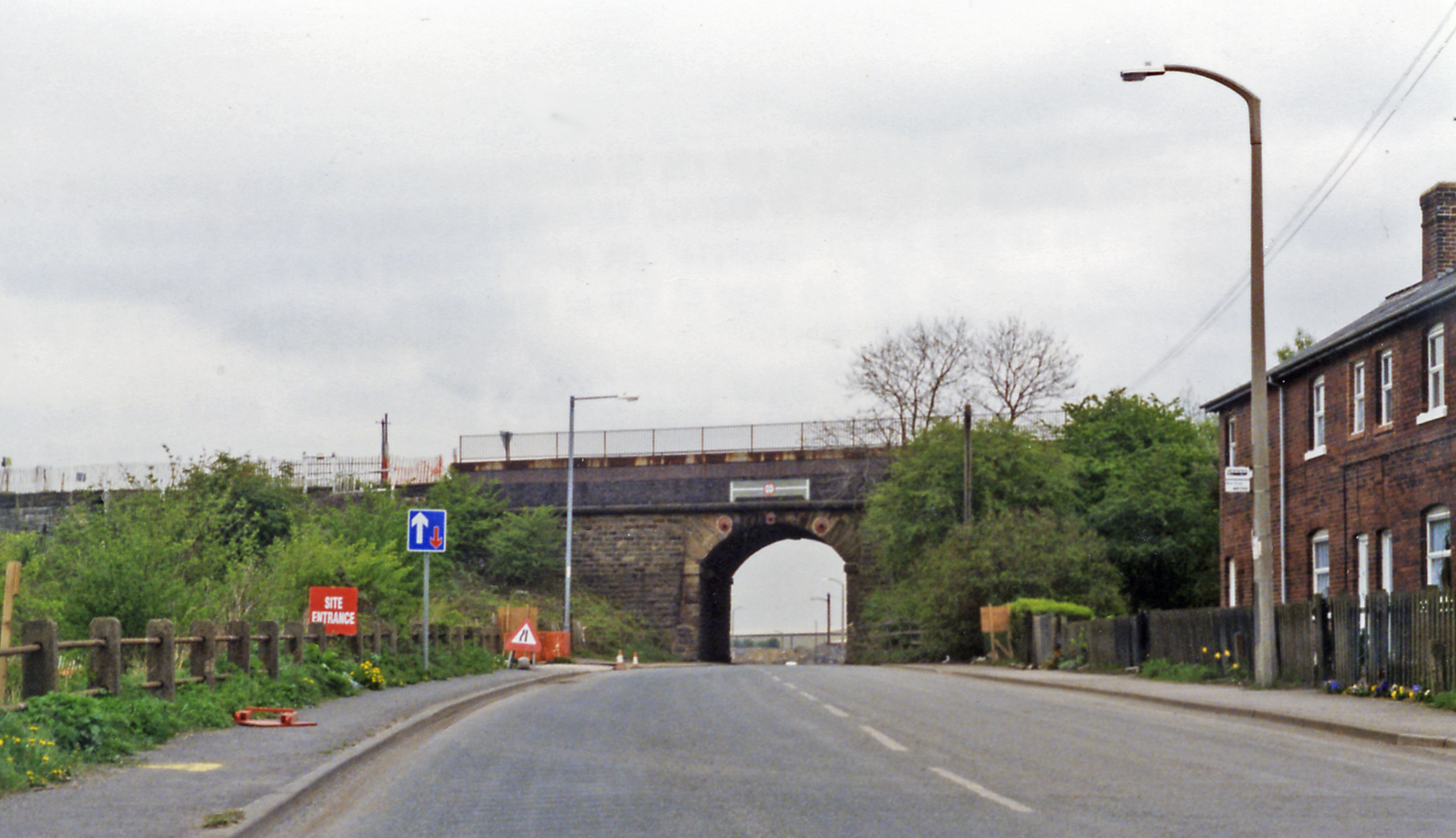 Site of Altofts & Whitwood station. View eastwards under the ex-Midland Leeds (left) - Sheffield (right) former main line via Normanton, demoted by 1968 to the local 'Hallam Line'. The station (plain 'Altofts' from 4/5/70) had been up on the left and was recently closed, from 12/5/90.